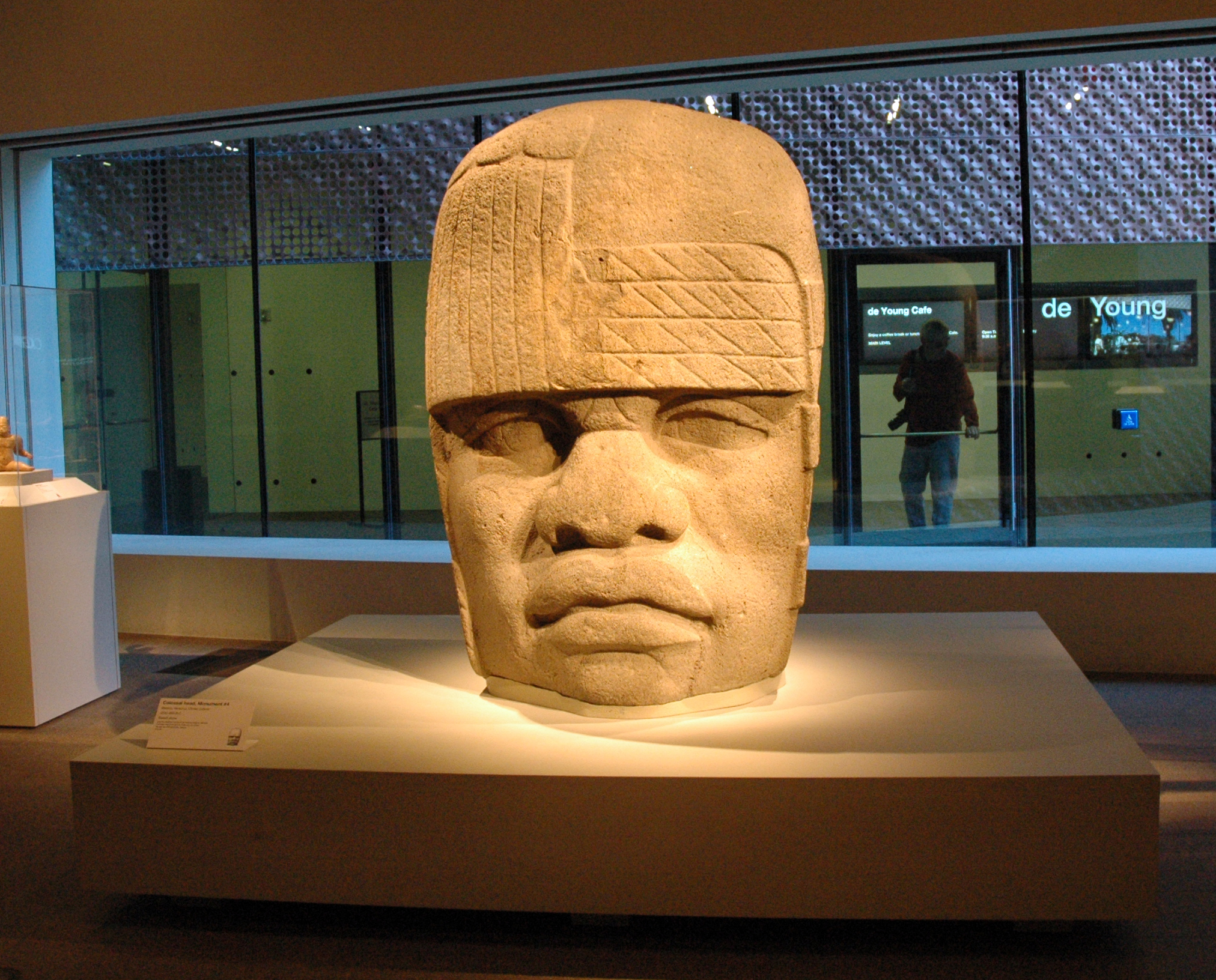 San Lorenzo Monument 4 at the De Young Museum. Height: 178 cm. Weight: c. 6 tons.